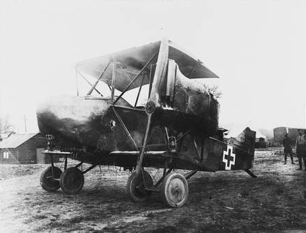 The remains of a German AEG G.IV bomber which was brought down in flames near Proyart, Somme, Picardie (France). A close look reveals two lanterns attached to left and right lower wing, suggesting that the bomber was recovered from elsewhere and towed by road to a safe area. Note the lozenge pattern camouflage applied to the fuselage; the bomb racks extending from the front of the nose to between the undercarriage; the shrapnel damage hole immediately below the forward central strut (this accords with reports of the plane being hit by AA fire); and the partial aircraft serial number evident on the lower wing strut. The soldier standing behind and to the right of the AEG is wearing a slouch hat, indicating this is an Australia base or depot - possibly even an airfield. The AEG's engines were mounted and supported on a series of metal struts which only attached to the lower wing and undercarriage supports - you'll note the left hand one is missing, probably due to AA damage or a heavy landing. The AEG mounted two 260 hp Mercedes D.IVa 6 cylinder in lines. Also missing are both detachable swept-back outer wing panels. The combination of serial number, the date and the location suggest this is probably AEG G.IV serial 588/17, which was hit by anti-aircraft fire and force landed in flames near Villers-Bretonneux on 16 May 1918. Villers-Bretonneux at the time was occupied by Australian troops, who had only captured the town two or three weeks before. The crew of three were probably taken captive if they weren't killed. After capture, this aircraft was assigned the British serial number G/5Bde/9, and would most probably have been shipped to the Agricultural Hall at Islington (UK) for evaluation, as most captured aircraft were. Most were scrapped by February 1919.